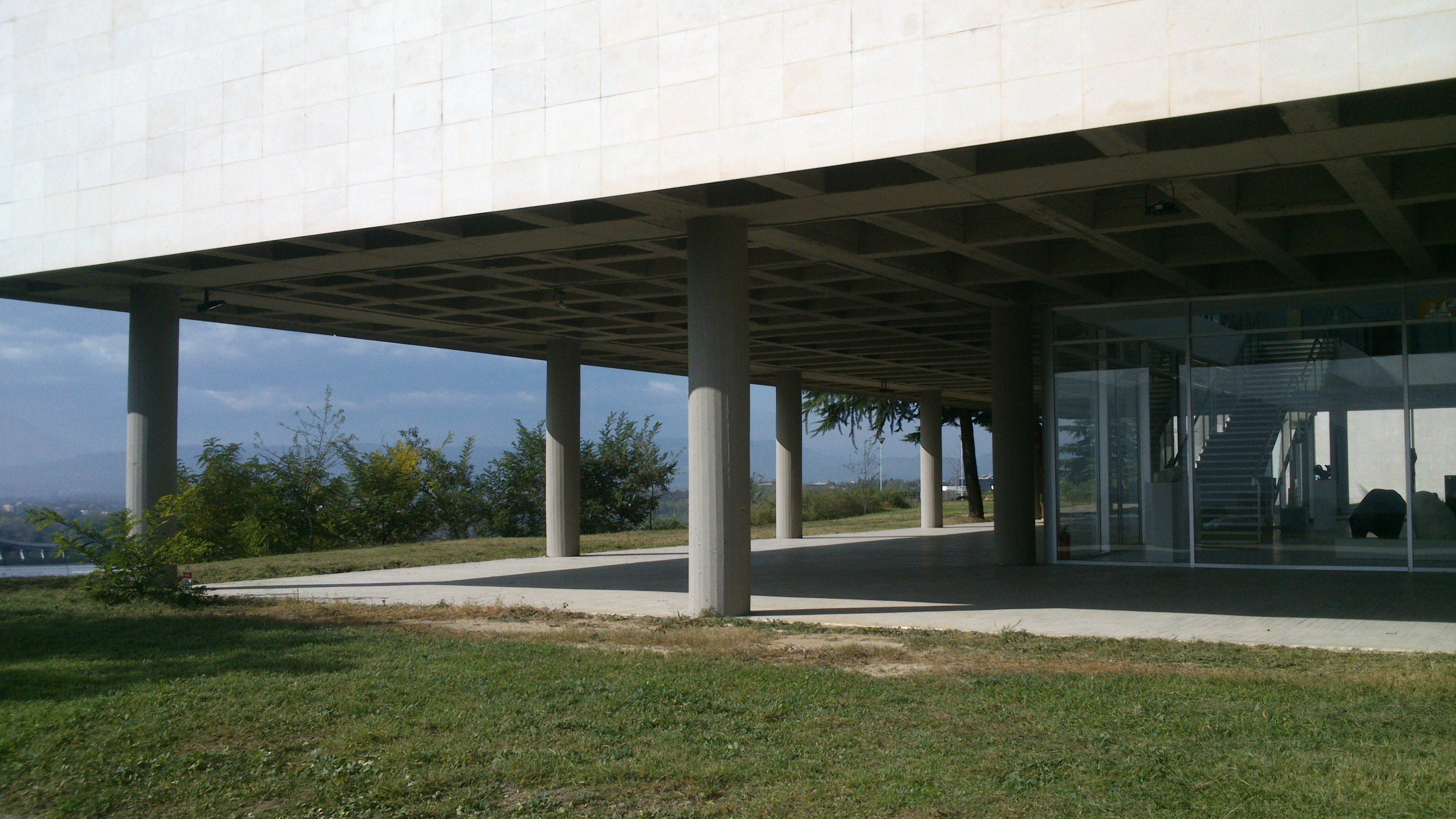 The Museum of Contemporary Art in Skopje, Macedonia Ова е фотографија на споменик на културата во Македонија со типски код: B08This is a a photo of a cultural monument in North Macedonia with type id: B08